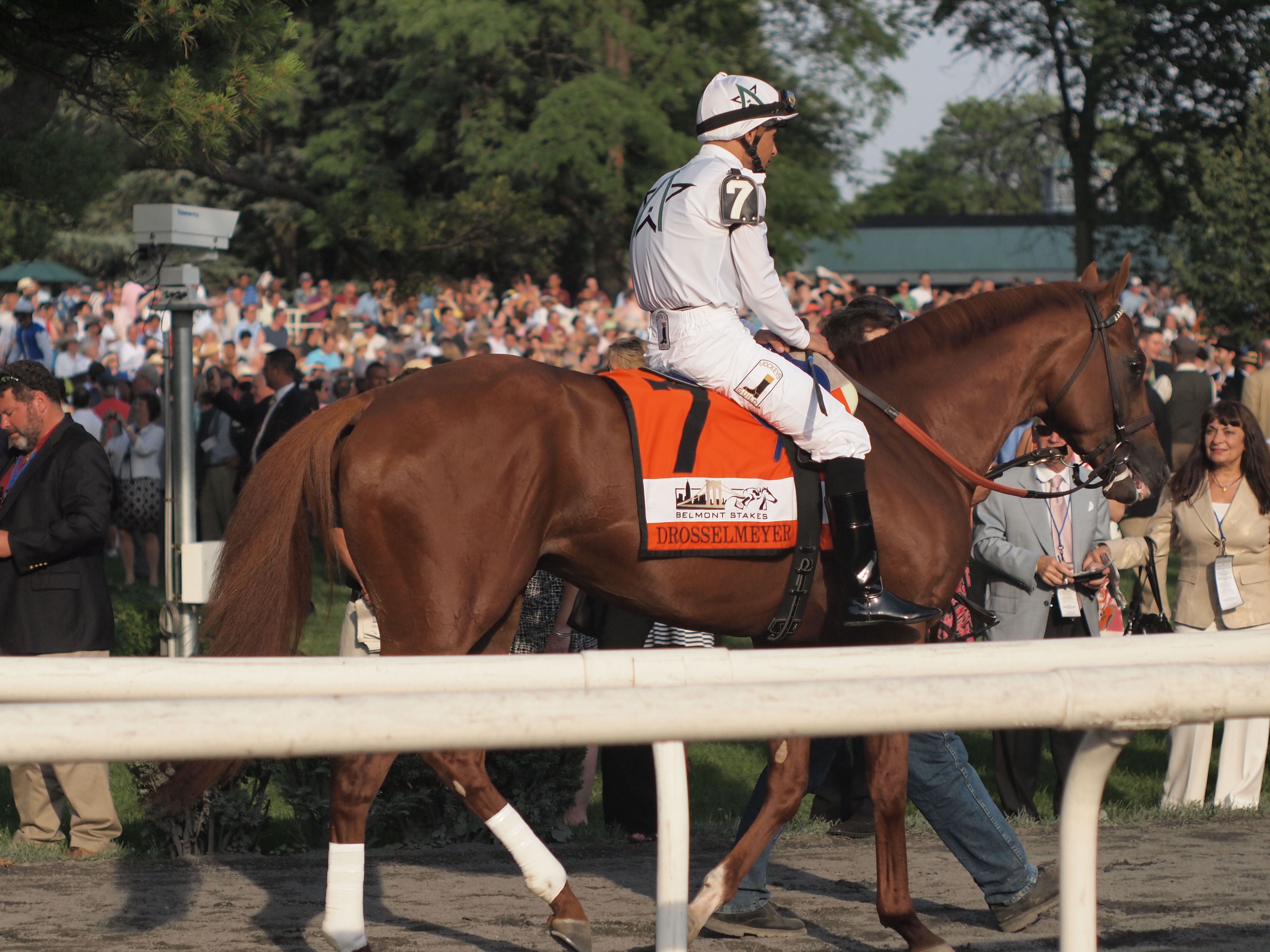 Drosselmeyer, winner of the 140th Belmont Stakes in 2010.